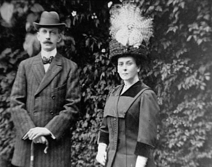 Grand Duke Paul Alexandrovcih of Russia and his second wife Princess Olga Paley